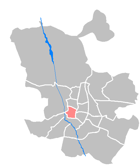 Locator maps of districts in Madrid: Maps - ES - Madrid - Centro.PNG